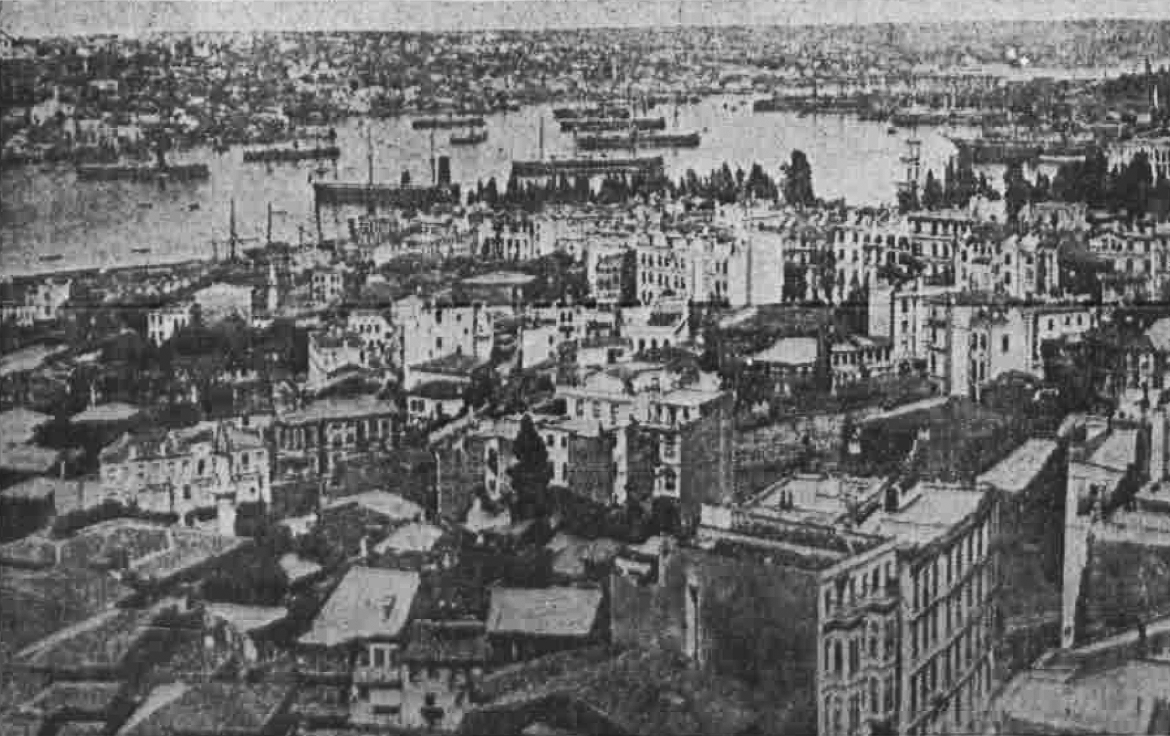 Newspaper illustration of the Ottoman fleet in Istanbul, Ottoman Empire (present-day Turkey). Original caption: Photo by Underwood & Underwood. MENACED BY THE GREAT ALLIED FLEET Turkish fleet at anchor in the Bosporus opposite Constantinople, whose flat roof tops and minarets are huddled close together as if seeking protection from the looming 15-inch guns now not far off. This may soon become the scene of the greatest naval battle of the present war.